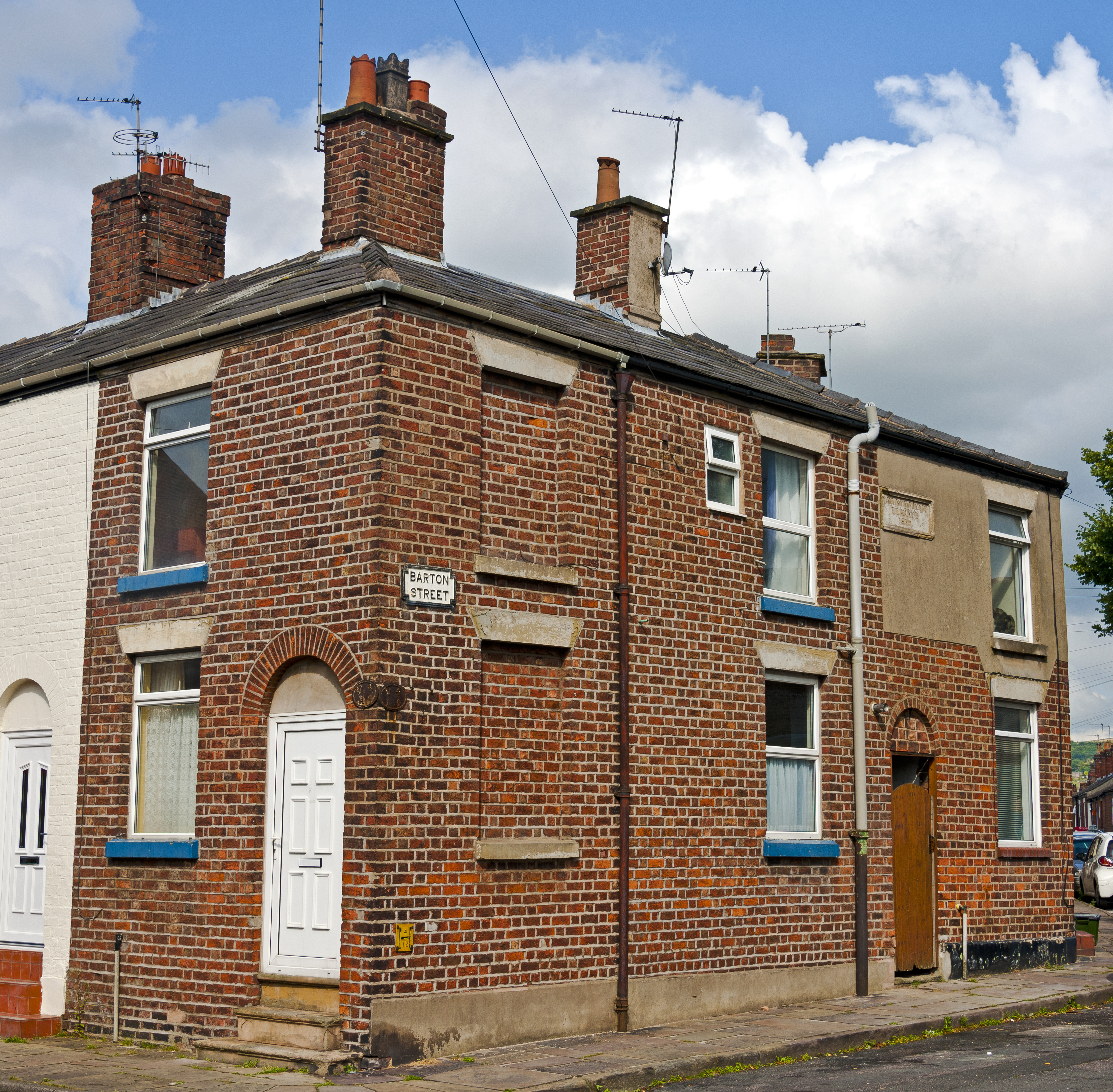 77 Barton Street, Macclesfield, Cheshire. Joy Division lead singer Ian Curtis lived and died here, a suicide on 18 May 1980. Curtis's house is to the right of the corner house.